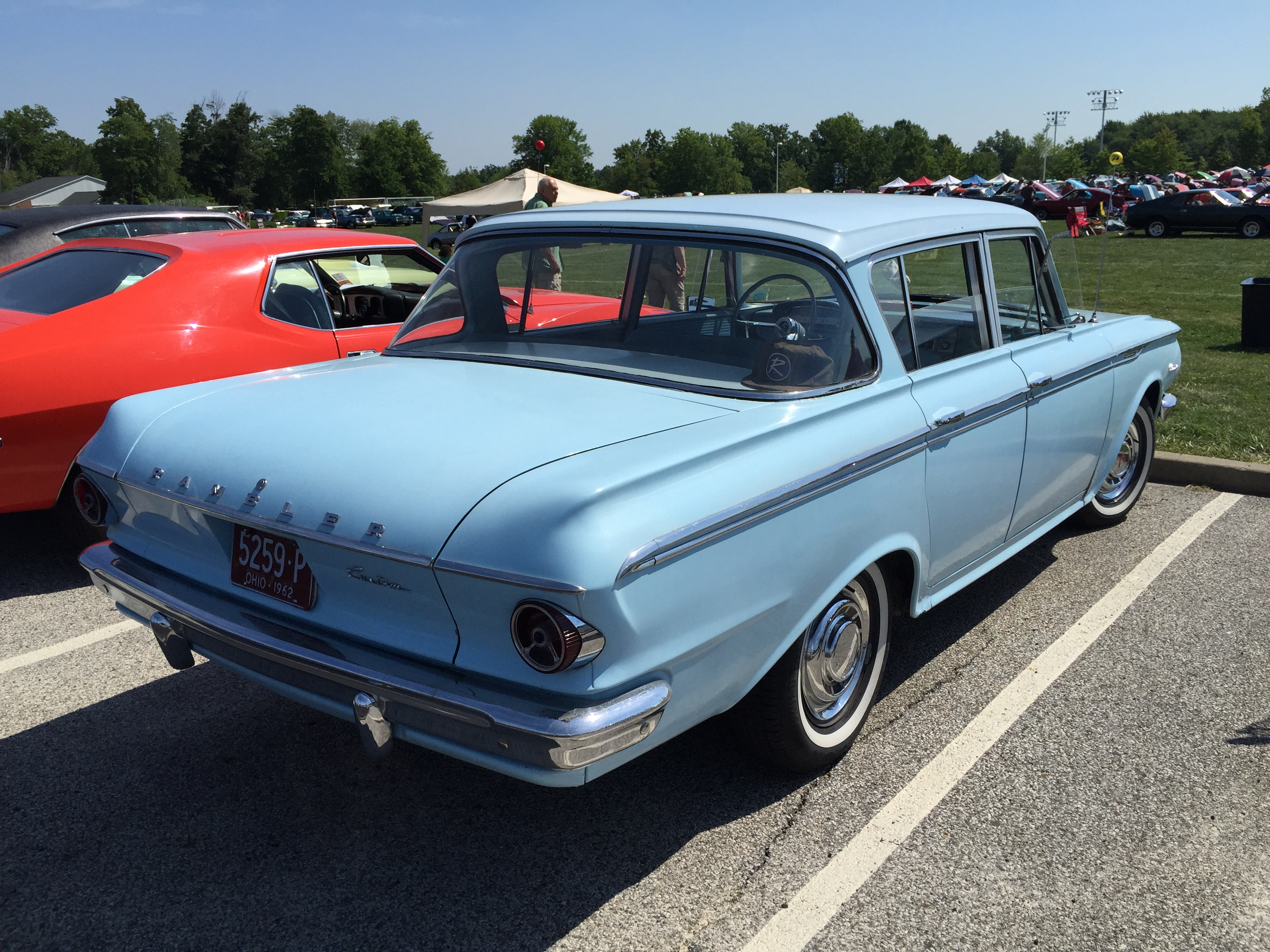 1962 Rambler Classic Custom, a 4-door sedan built by American Motors Corporation (AMC). This car is finished in Sonata Blue, with a matching blue interior. The steering wheel has an aftermarket Brodie knob, often called a "necker knob". Picture taken at the American Motors Owners Association (AMO) annual convention that was held July 2015 near Cleveland, Ohio.